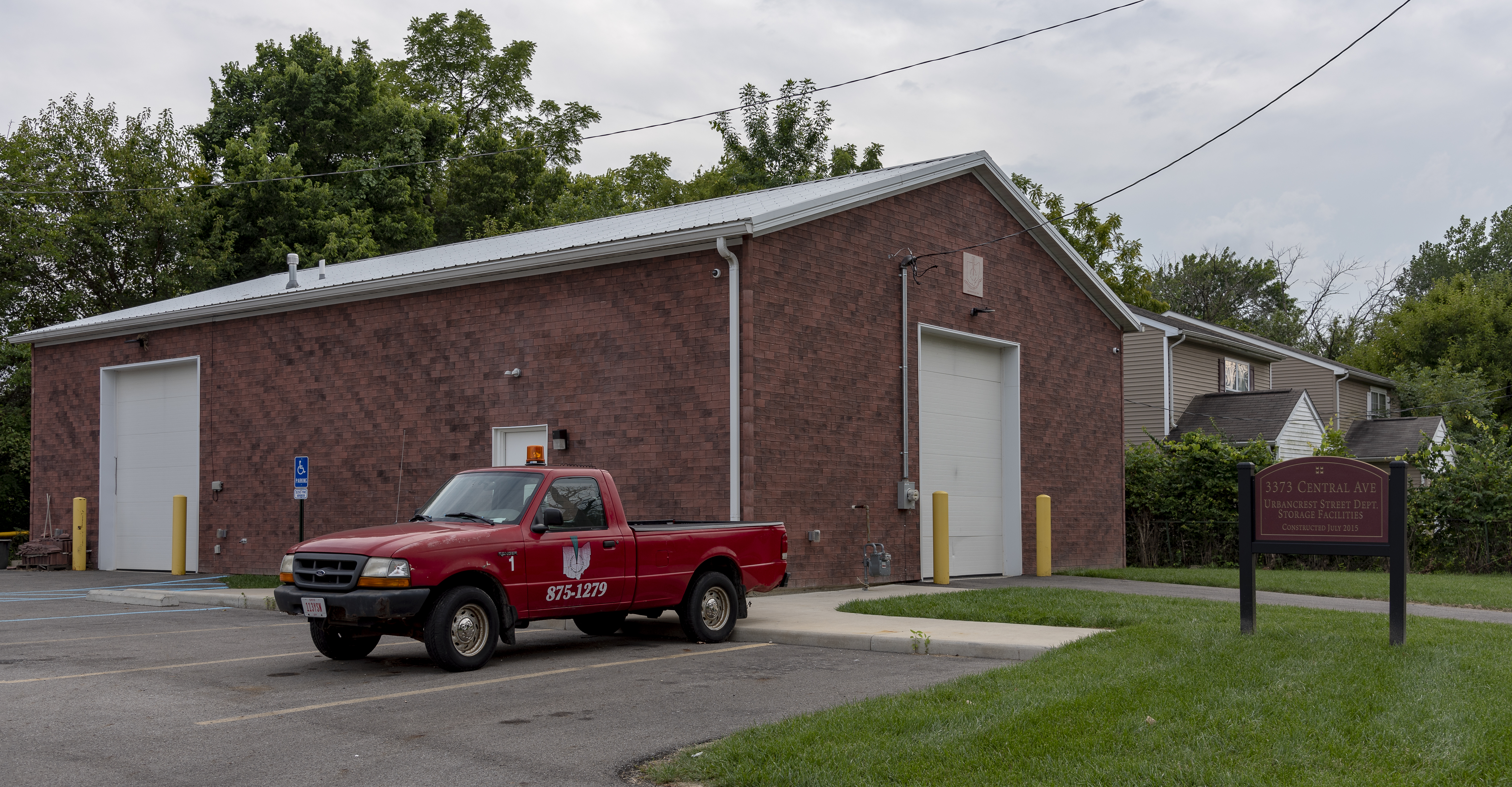 The maintenance facilities for the small village of Urbancrest, Ohio. This building was constructed in 2015.